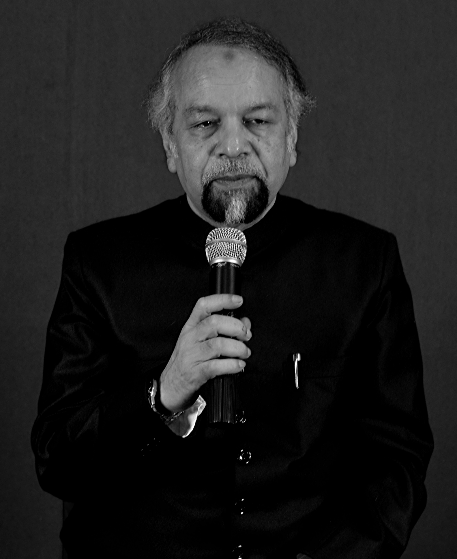 This photo was taken during a photo-shoot for wikipedia